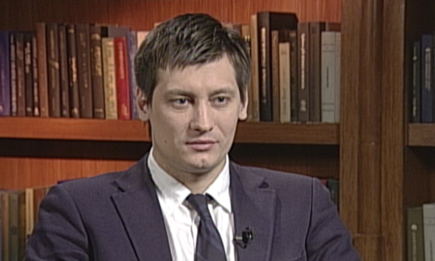 Interview with Dmitry Gudkov by VOA (2013-03-08).